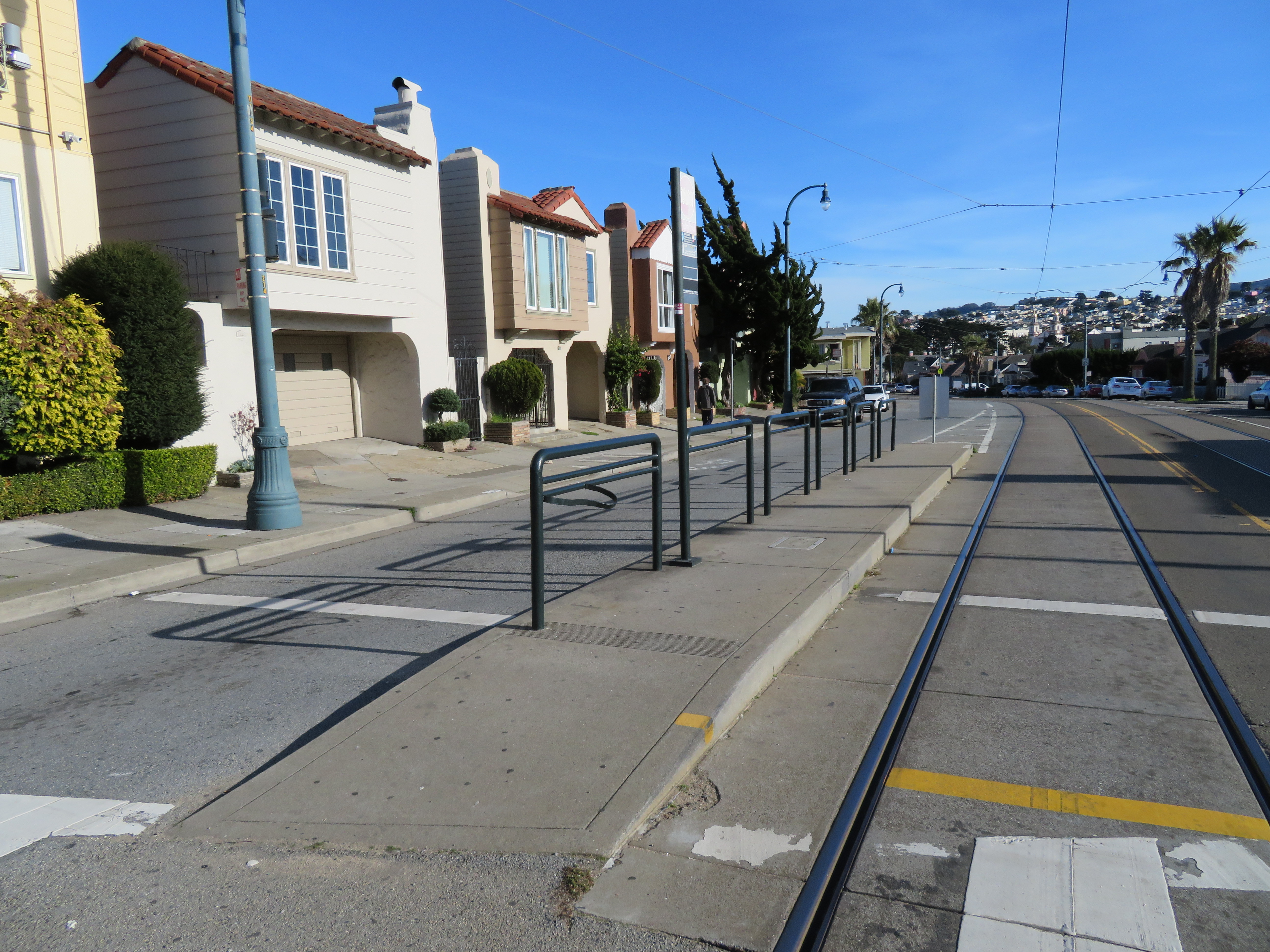 Inbound platform at Ocean and Westgate station in January 2018